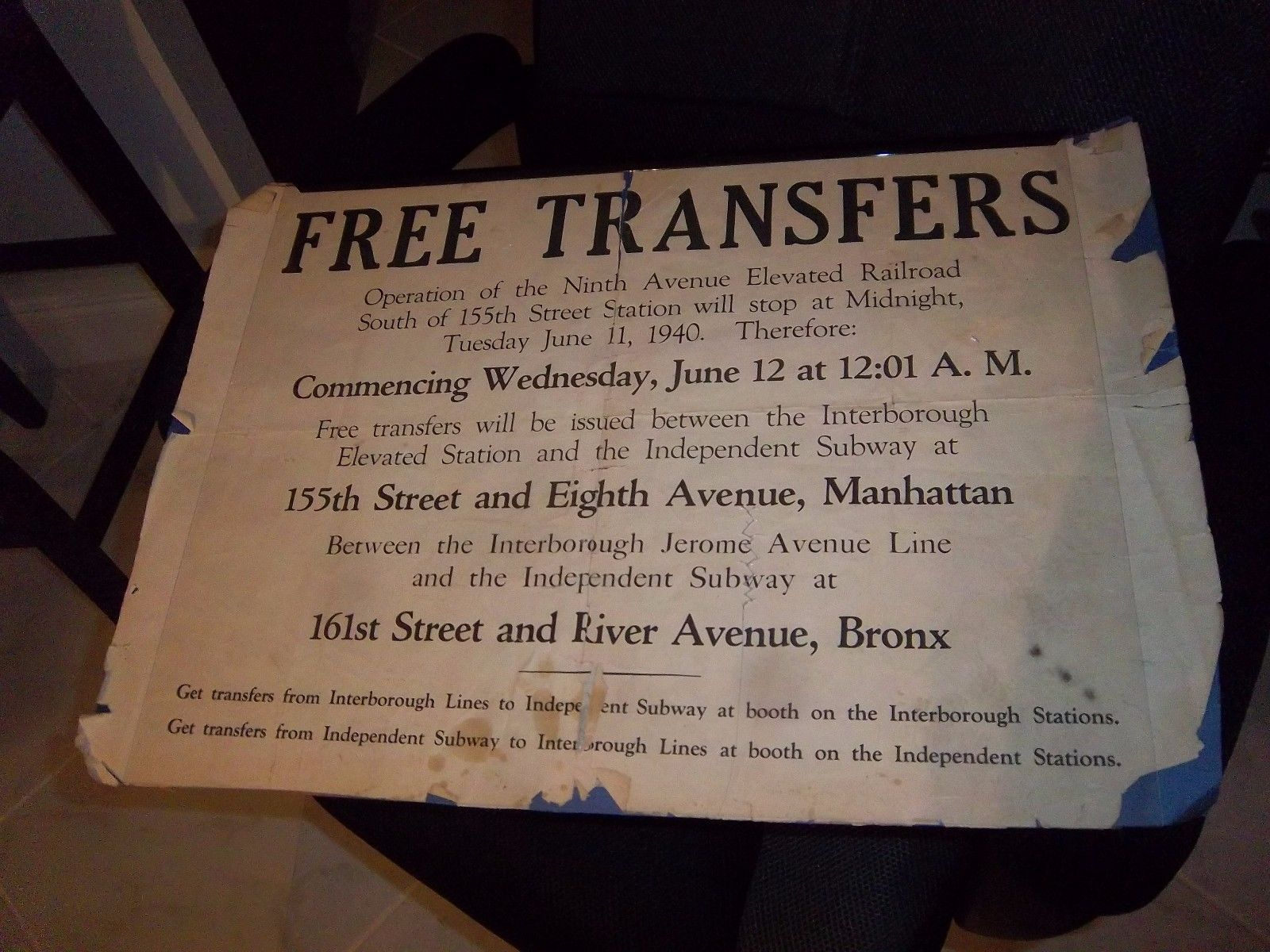 This a poster that was used to tell passengers that because the Ninth Avenue elevated was eliminated south of 155th Street and therefore free transfers would be issued.